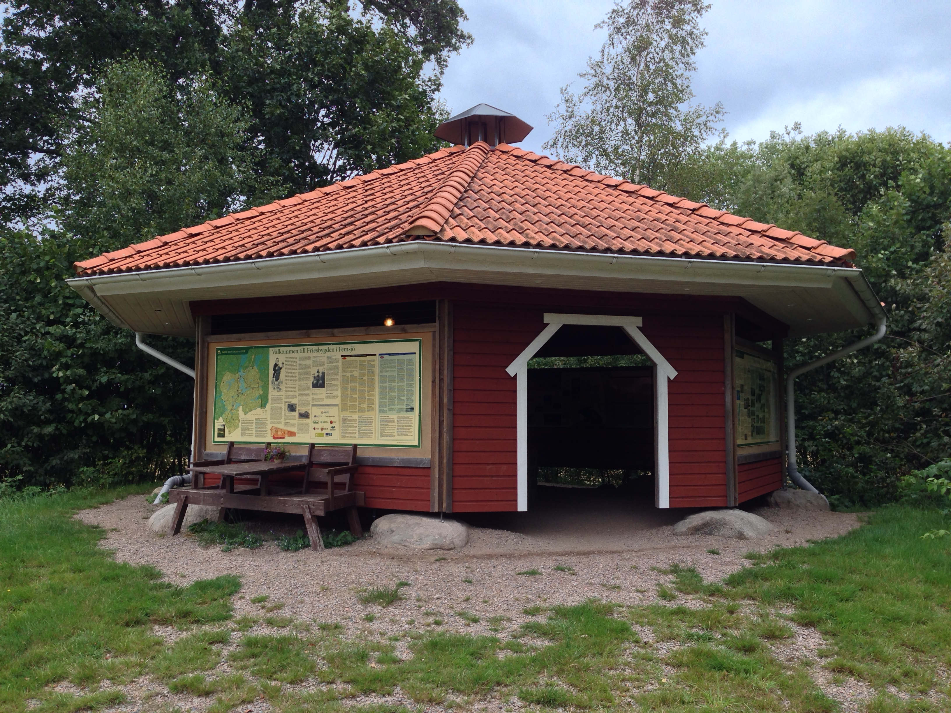 Outside museum containing information on Elias Fries located in Femsjö, Sweden.